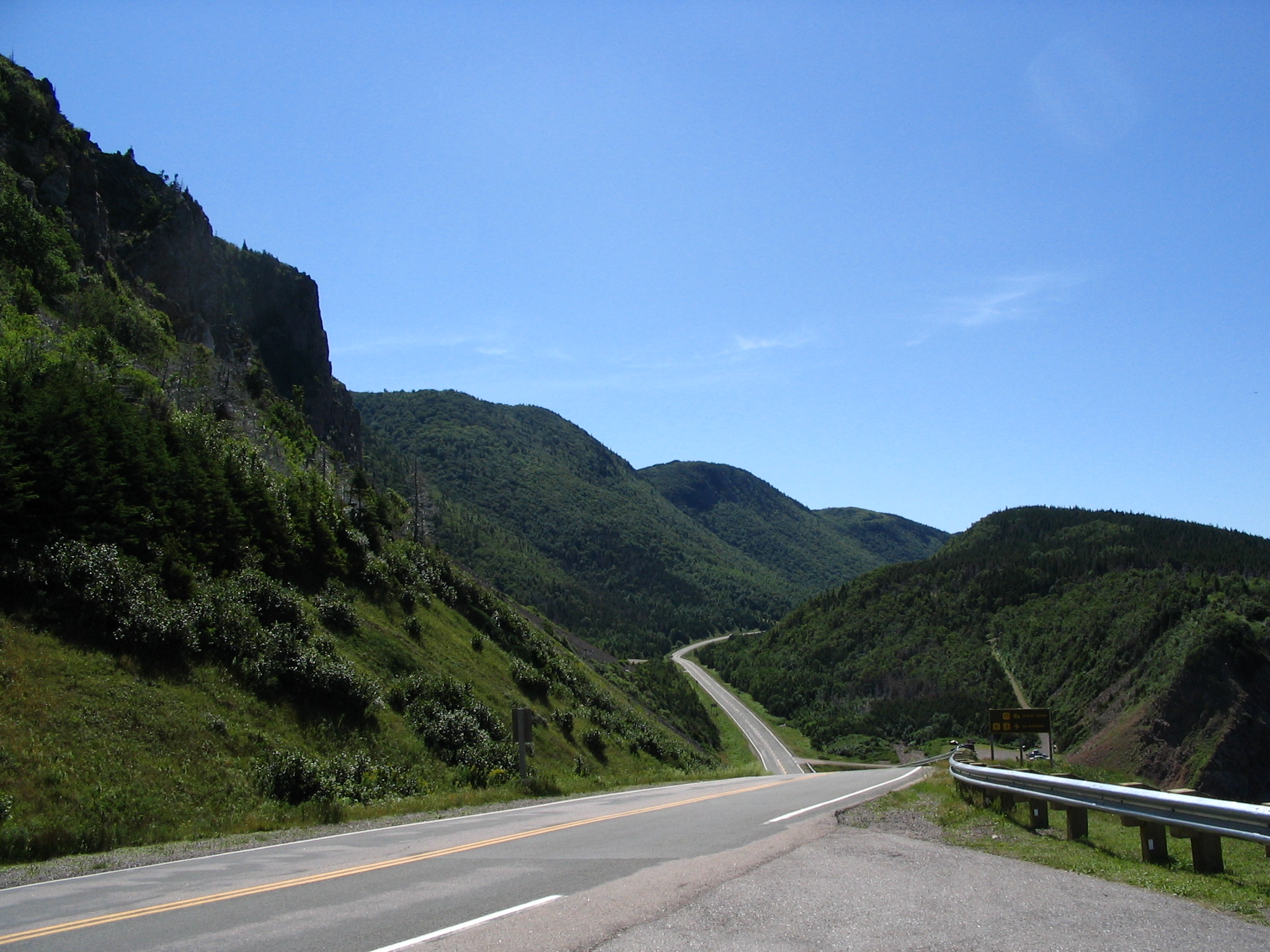 Cape Breton Island, Nova Scotia